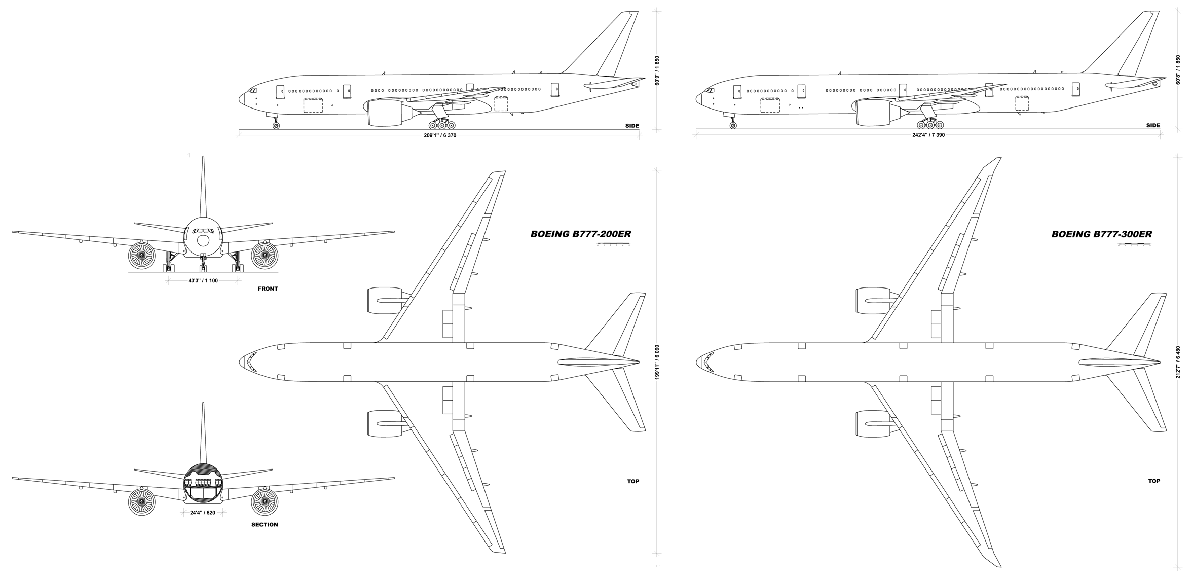 Schematics of Boeing 777 -200, -300. Side, top, front, section.